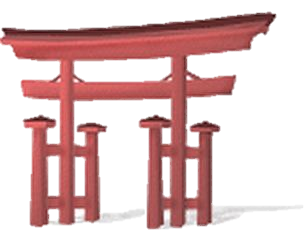 Design from icon of CSS Zen Garden